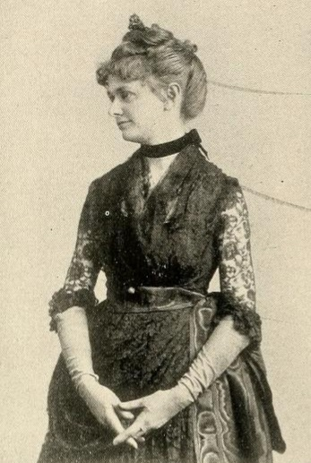 Photographic portrait of American writer Mabel Loomis Todd (1856–1932). From American Women: Fifteen Hundred Biographies with Over 1,400 Portraits, Frances E. Willard and Mary A. Livermore, editors. Mast, Crowell & Kirkpatrick, 1897 (revised edition from 1893), vol. 2, p. 718